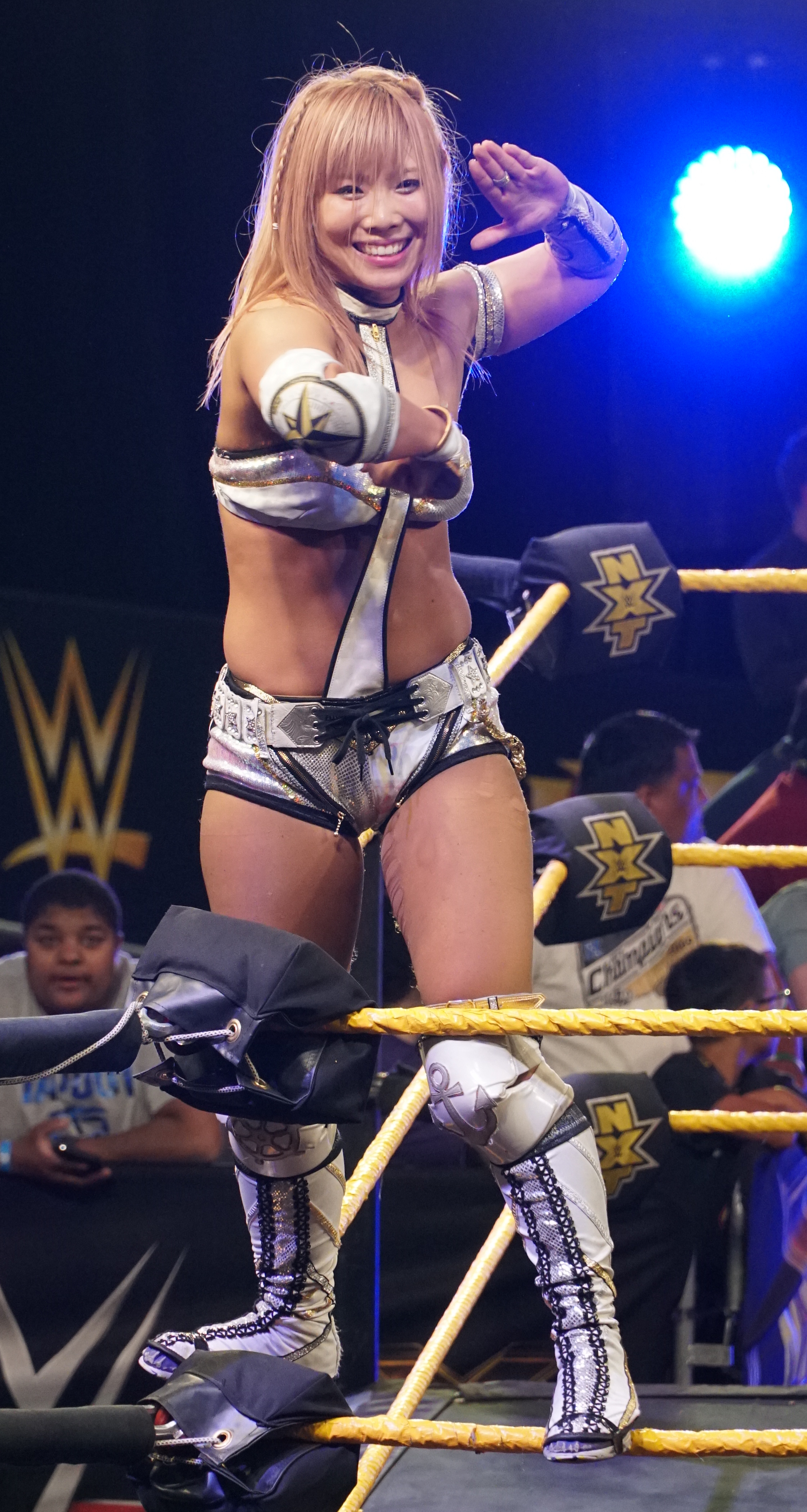 NOLA 2018 - WWE Axxess - Thursday - Kairi Sane Vs Bianca BelAir Kairi Sane def. Bianca BelAir ( Deux semaines a Nola pour la ville et pour WWE Wrestlemania XXXIV Two weeks Nola for the city and for WWE Wrestlemania XXXIV )